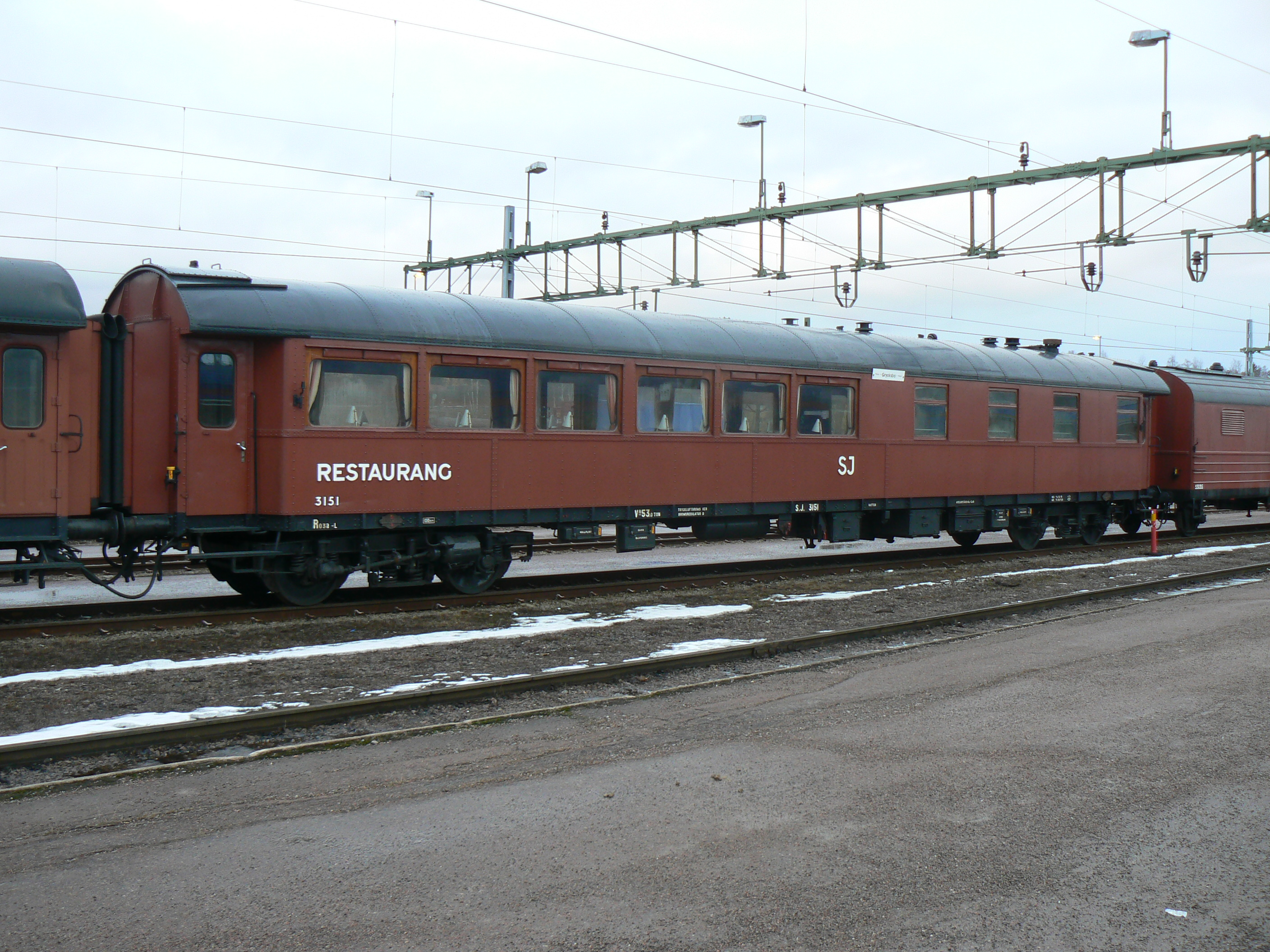 Old Swedish restaurant wagon at the Falun Central railway station